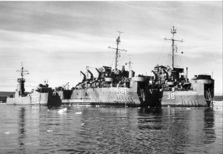 LST-521, LSM-297 and USS Krishna (ARL-38) during "Operation Blue Jay," the construction of Thule Air Force Base in Greenland, circa 1950.